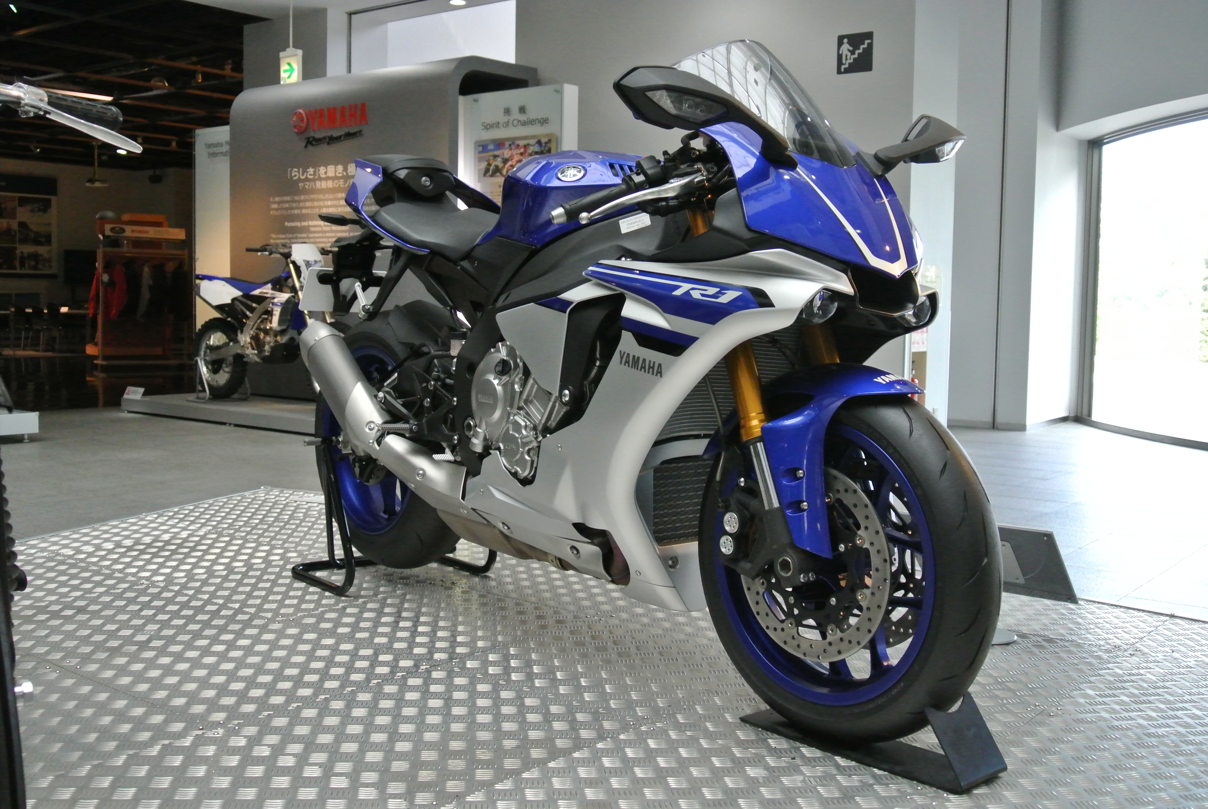 2015 Yamaha YZF-R1 in the Yamaha Communication Plaza.